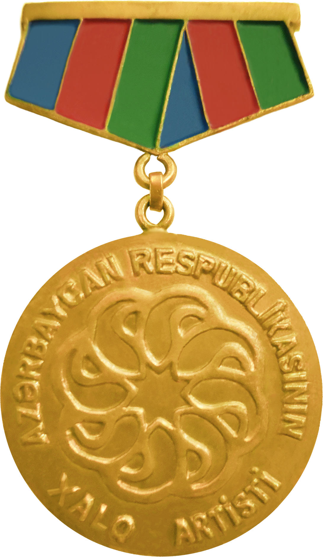 People's Artist of the Azerbaijan